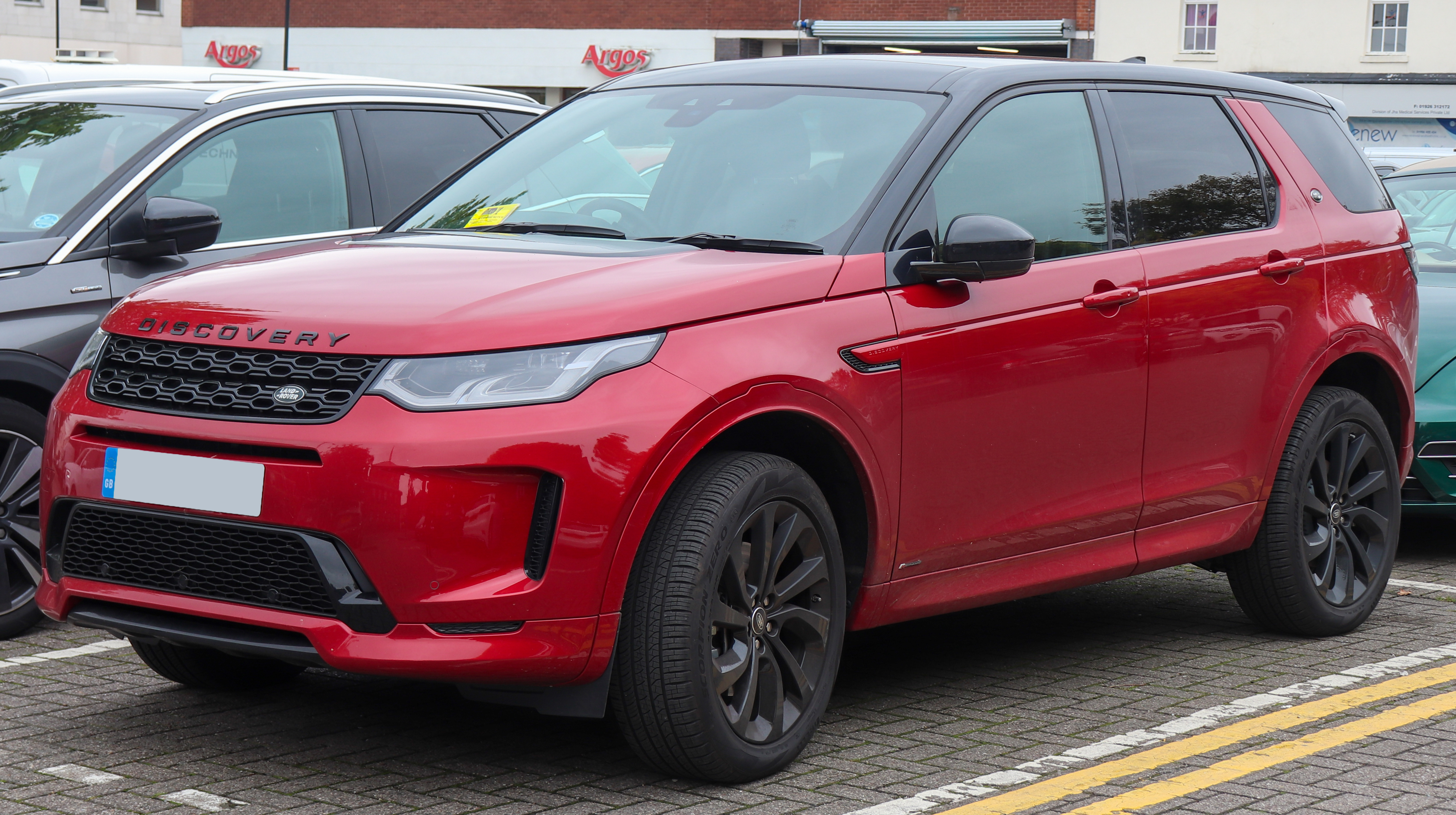 2019 Land Rover Discovery Sport R-Dynamic SE 2.0 Front Taken in Leamington Spa